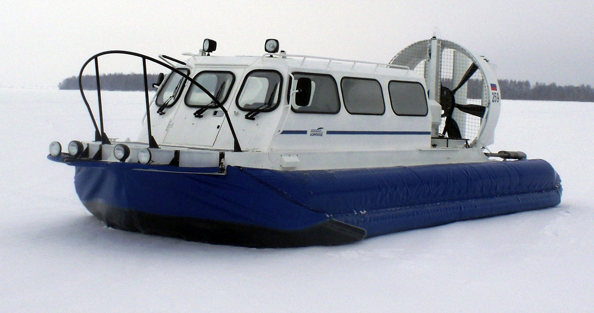 Amphibious boat "Khivus-10" near Vasilsursk